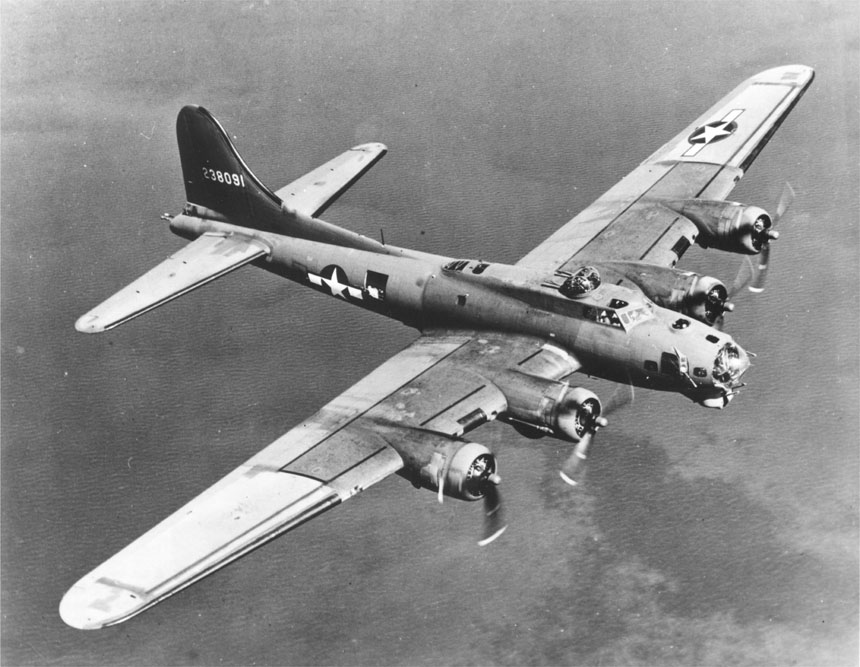 Boeing B-17 "Flying Fortress" levels off for a run over target. Photo shows the chin turret with .50 caliber machine guns featured in later models. The B-17 weighed about 60,000 lbs., carried a bomb load of 6000 lbs., at a speed of approximately 300 miles per hour.